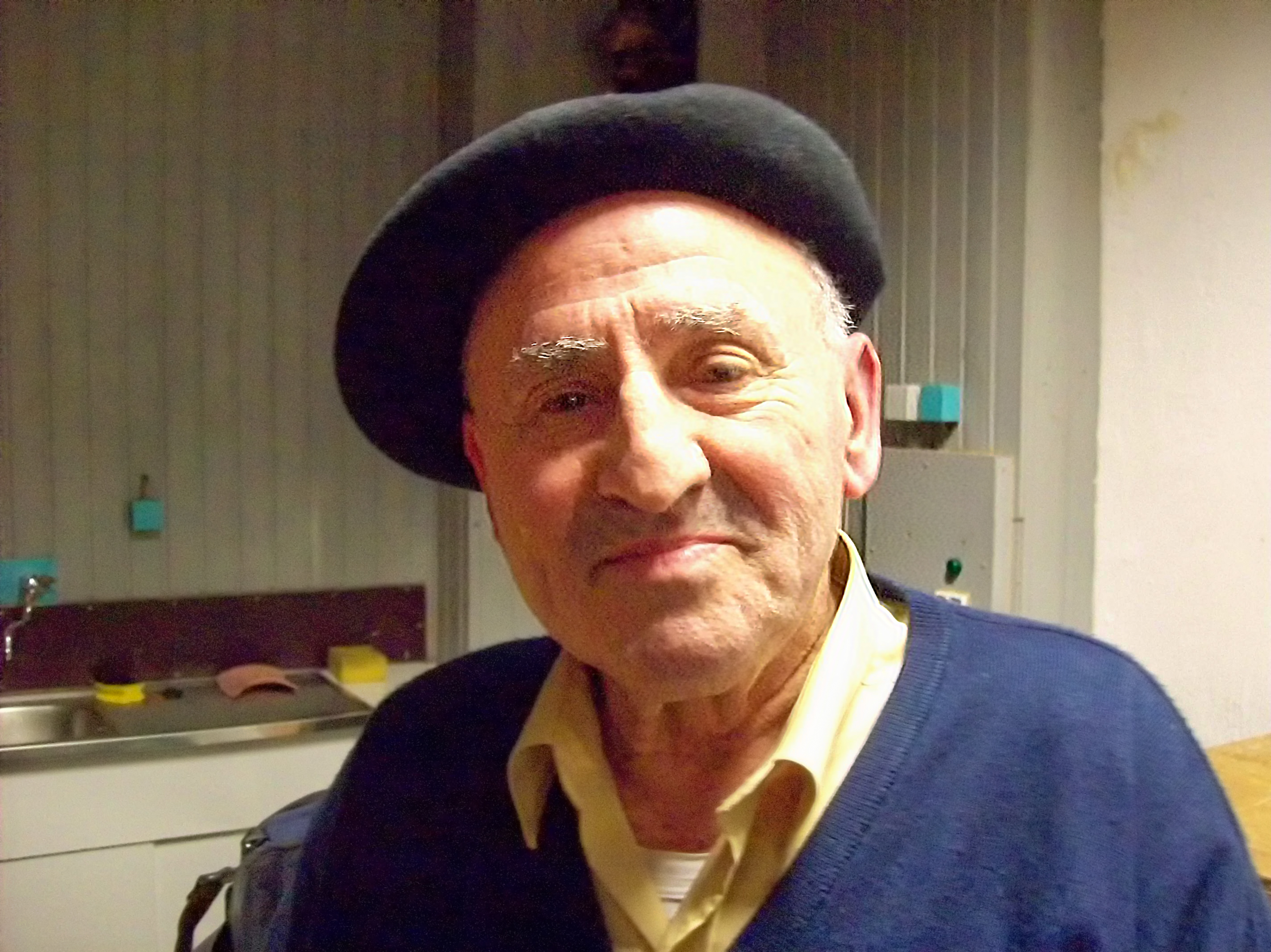 Lucio Urtubia in Berlin 2010